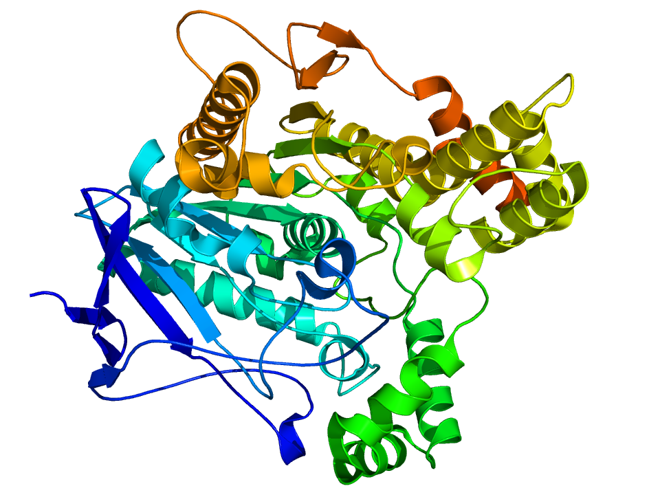 Crystallographic structure of ACETYLCHOLINESTERASE (E.C. 3.1.1.7) FROM TORPEDO CALIFORNICA based on PDB 1ea5